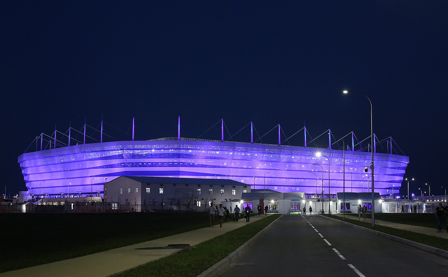 Kaliningrad Stadium